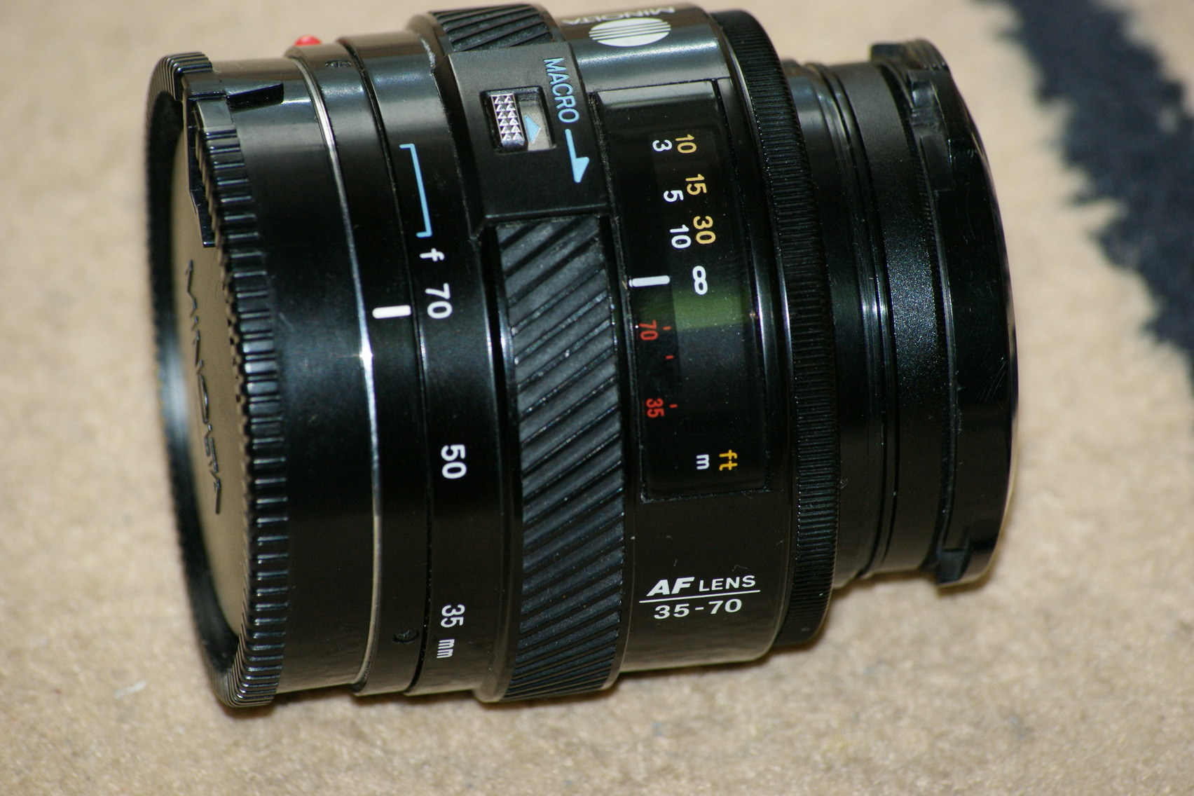 Minolta AF 35-70 mm F4 lens.